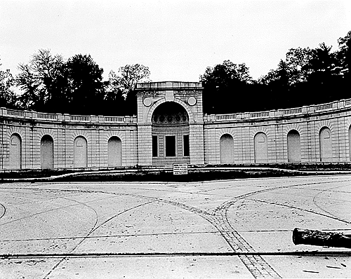 The Hemicycle, the ceremonial entrance to Arlington National Cemetery, nearing completion in Arlington County, Virginia, in the United States in 1931. The view is to the west, across the Hemicycle plaza. NARA control number: 69-N-108